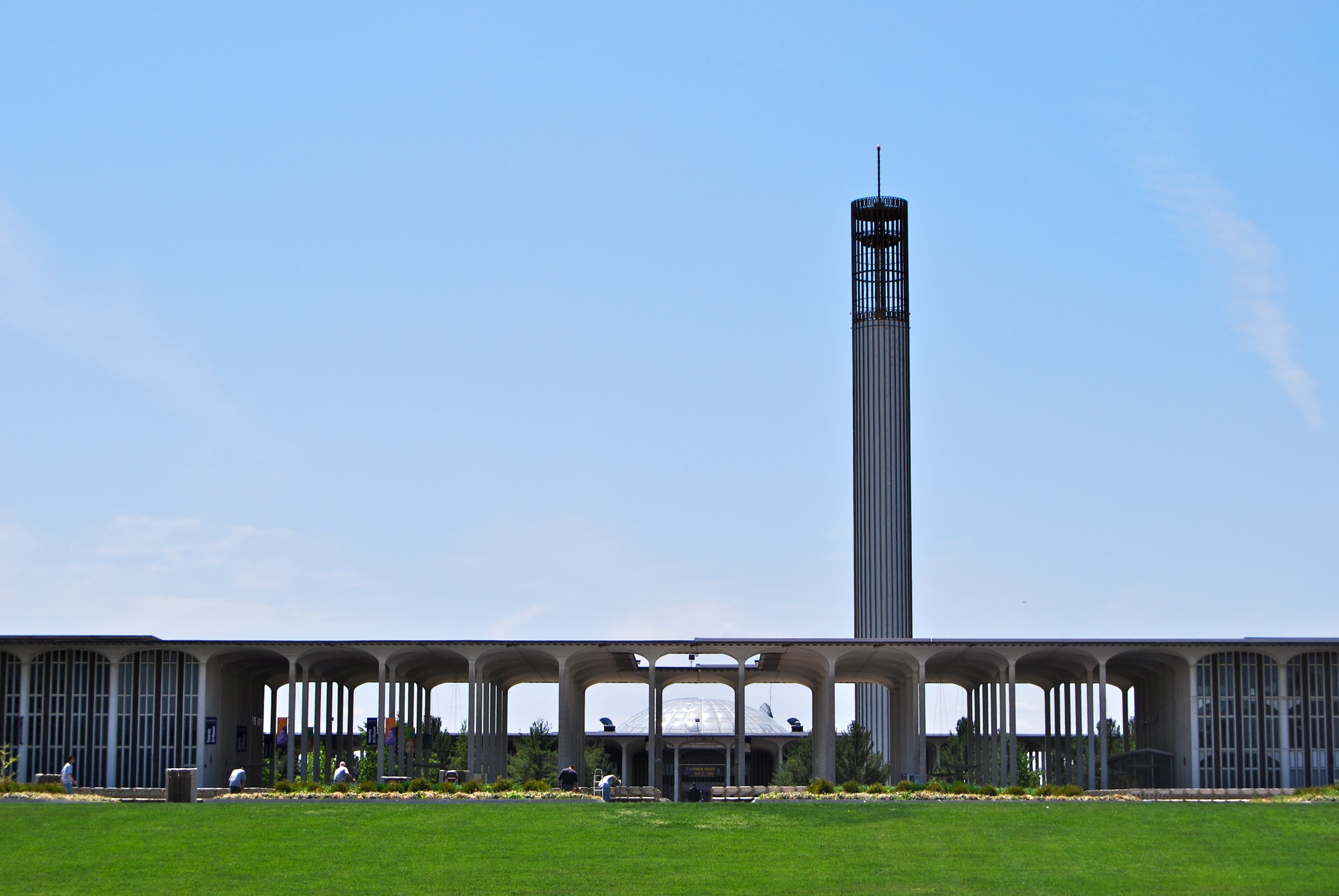 University at Albany, part of the State University of New York, located in Albany, New York, United States